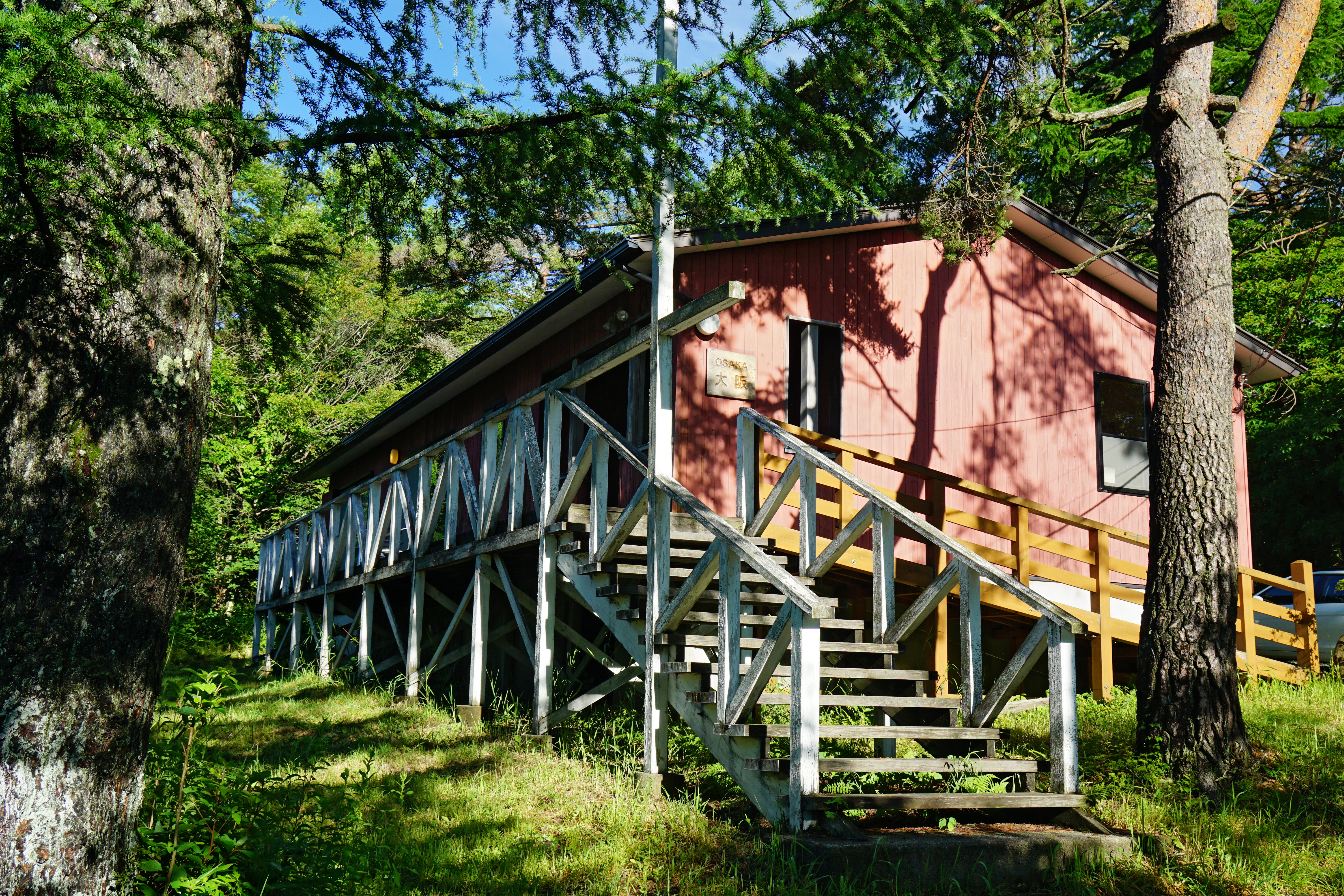 Seisen-ryo cottage "Osaka" in Hokuto, Yamanashi prefecture, Japan.